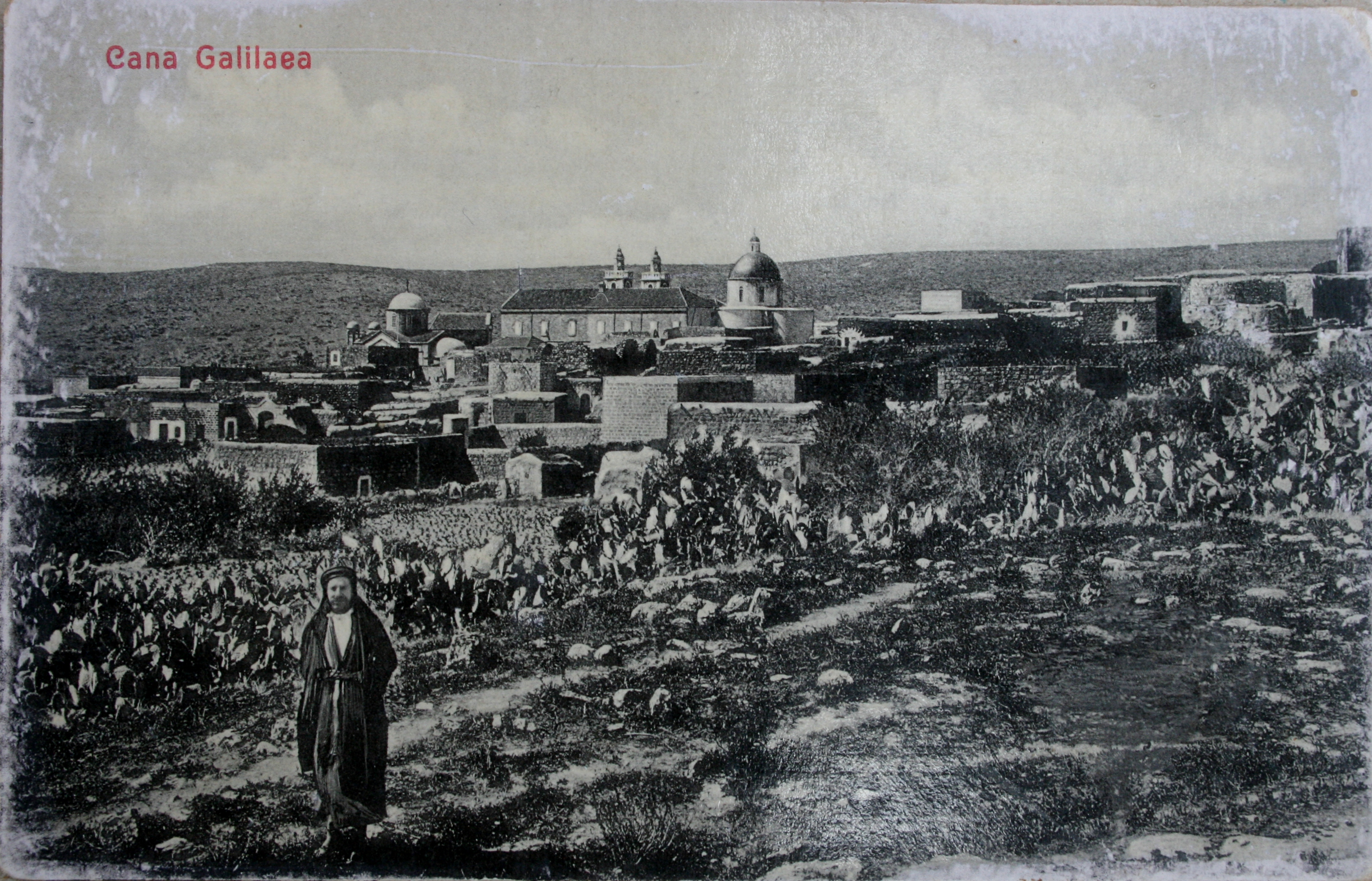 Postcard photo depicting Arab man in the fields of Kfar Kanna in the Galilee